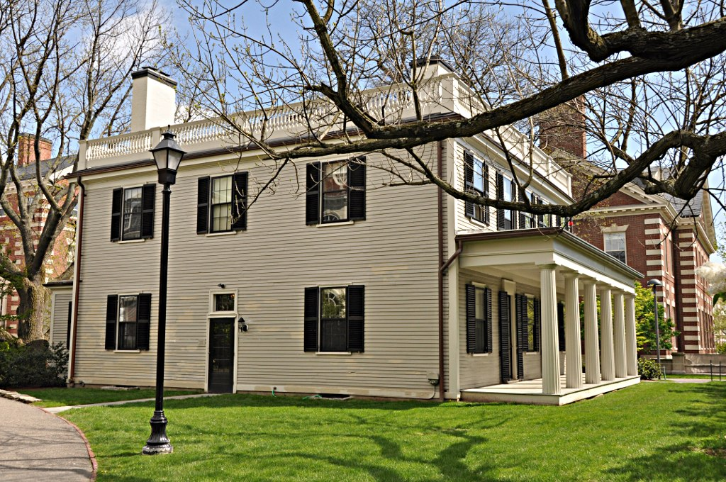 A photograph of the historic Dana-Palmer House in Cambridge, Massachusetts.